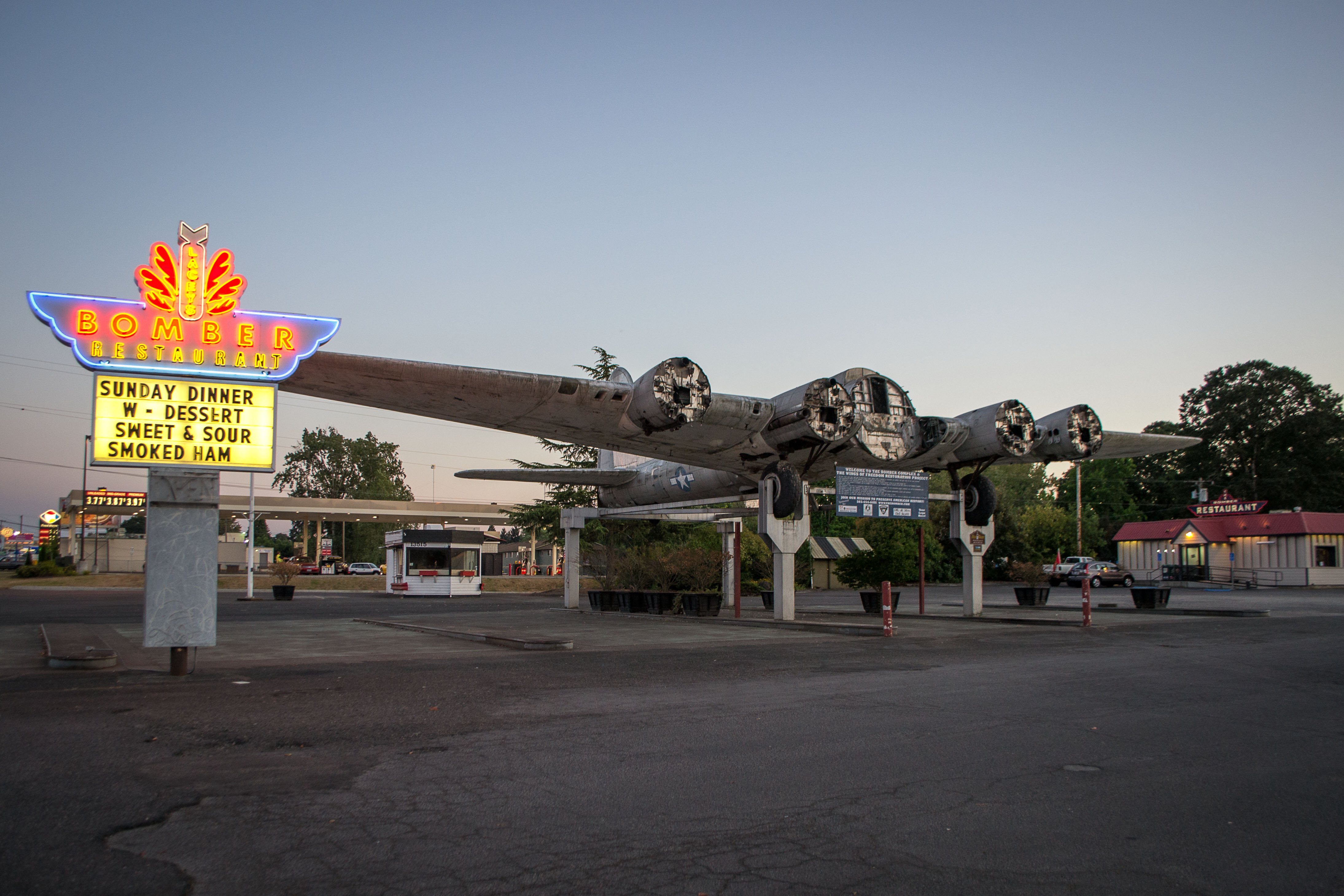 The Bomber Restaurant in Milwaukie, Oregon, at sunset